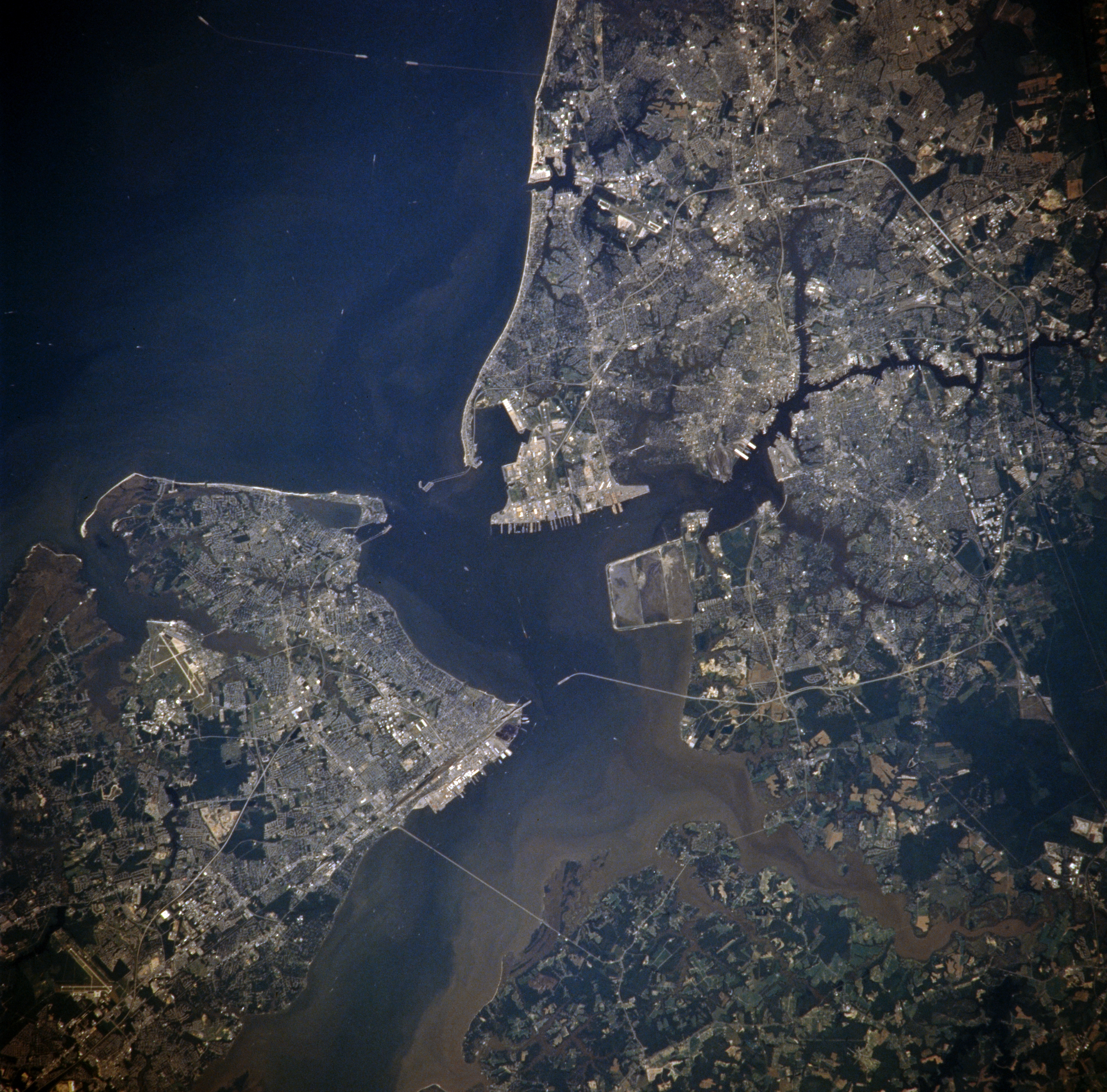 (From left uppermost, going clockwise:) Hampton, Norfolk, Portsmouth, Suffolk, and Newport News, Virginia, USA. - July 1996 One can see the major roadways throughout Hampton Roads, starting from the top with the Chesapeake-Bay Bridge-Tunnel (it has three bridge spans and two tunnel spans, seen with the gaps). The next down is the Hampton-Roads Bridge-Tunnel, connecting Hampton and Norfolk. Going further down, one sees the Monitor-Merrimack Memorial Bridge-Tunnel, connecting the tip of Newport News (near Northrop Grumman - Newport News shipyard) to Suffolk. Continuing down the major river (the James River, to be exact), one sees the James River Bridge, a draw-bridge, also connecting Newport News with Suffolk. Another visible landmark is the Fort Monroe Military Installation, located directly next to the Hampton Roads Bridge-Tunnel. This is one of the oldest fortifications in the United States, and has been occupied at various times through its history by Gen. Robert E. Lee and famous author Edgar Allan Poe. During the Civil War, Fort Monroe remained unbeseiged by the Confederacy, because, according to rumor, Gen. Lee knew that the fort would not fall. It retains the old fortification design inherited from Great Britain and Europe, characterised by a central island surrounded by a moat. This photograph is rotated approximately 120 degrees clockwise from true north. Norfolk, Portsmouth, and Suffolk are all part of the "Southside".